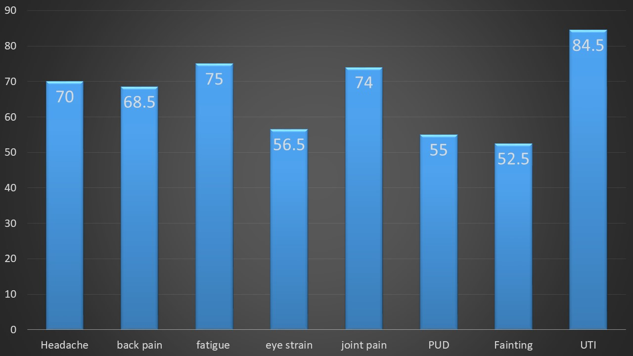 I made this graph by using Microsoft excel with some data that I had when I worked as physician in RMG sector